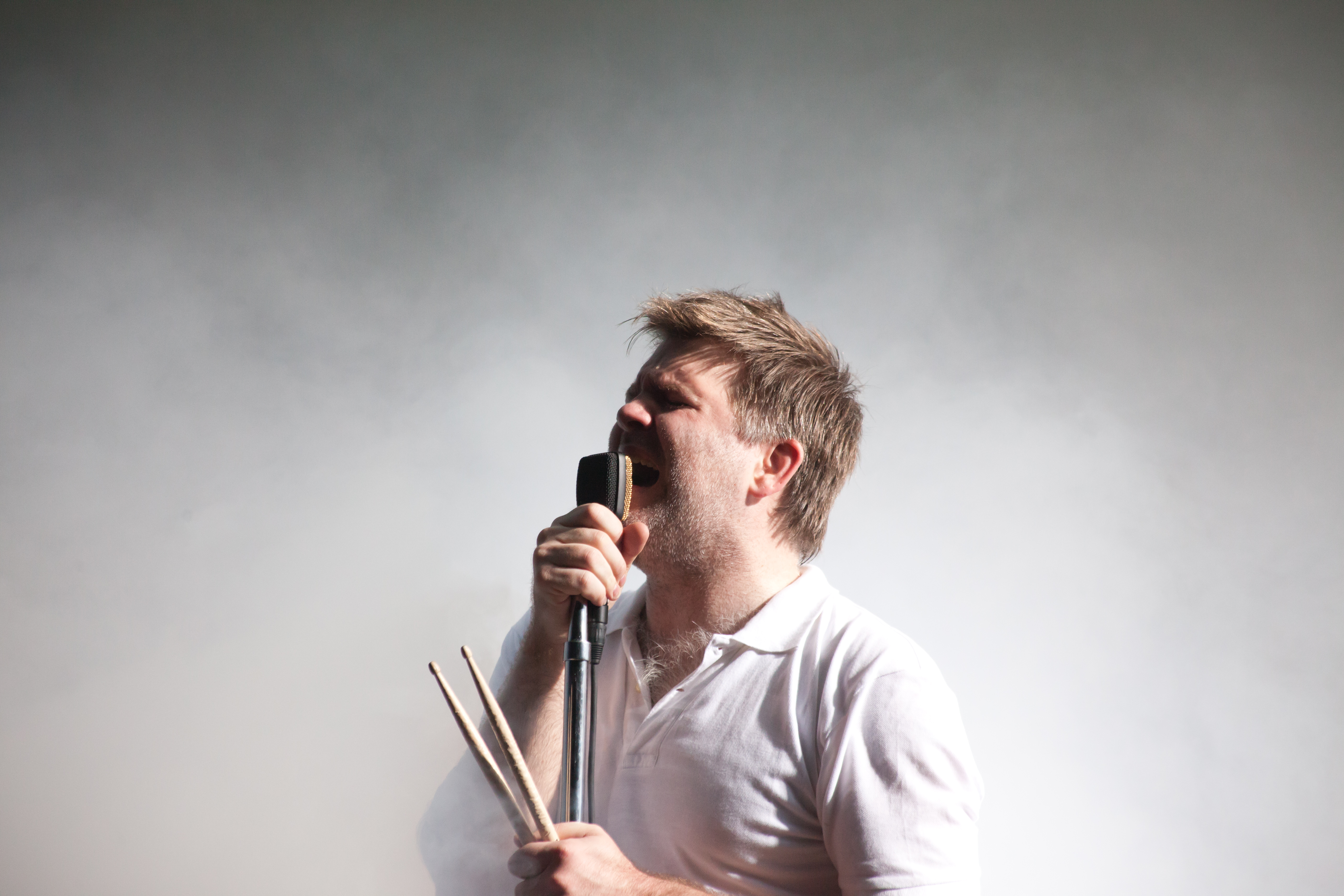 James Murphy of LCD Soundsystem at Berlin Festival 2010, Tempelhof Airport.